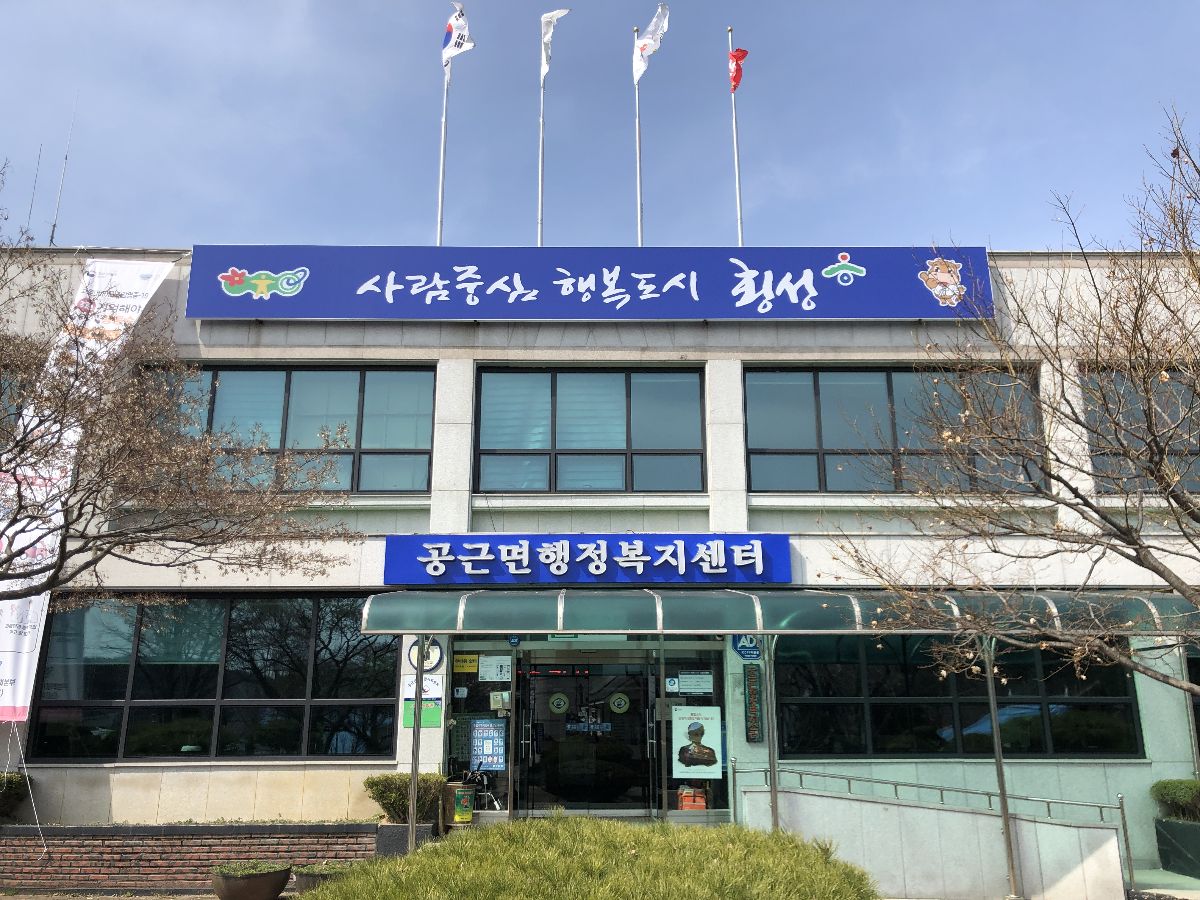 Gonggeun Administration and Welfare Center